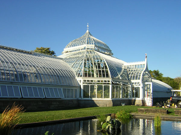 Exterior view of a section of the Phipps Conservatory & Botanical Gardens in Pittsburgh, Pennsylvania, on October 20, 2007.